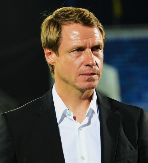 Aleh Konanaw